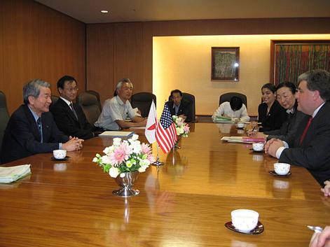 Eric Hargan, Acting Deputy Secretary of Health and Human Services, talked with Hakuo Yanagisawa, Minister of Health, Labour and Welfare, at the Ministry of Health, Labour and Welfare in Chiyoda Ward, Tōkyō Metropolis, on July 11, 2007.